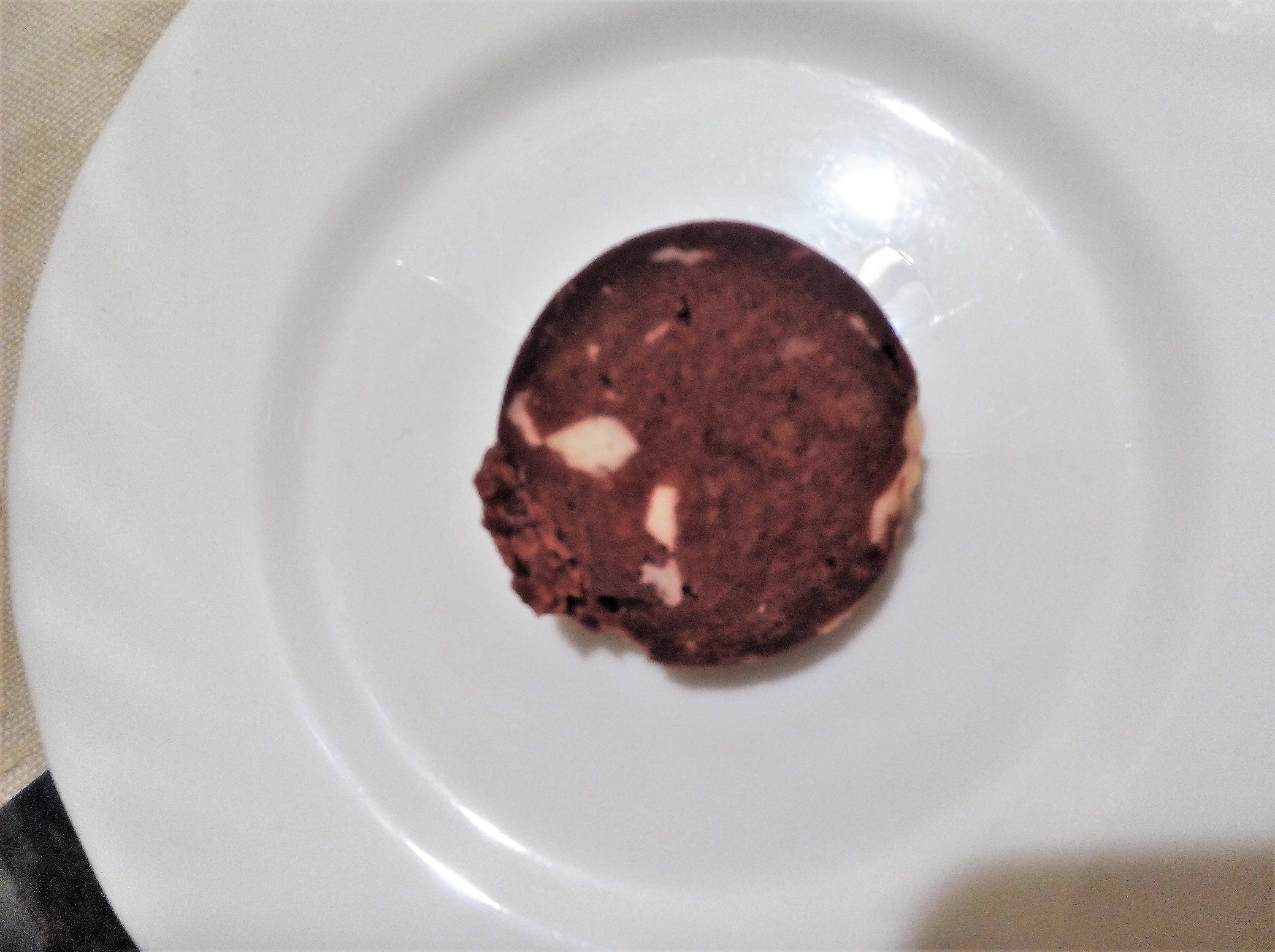 Ukrainian Vegetarian Cervelat.